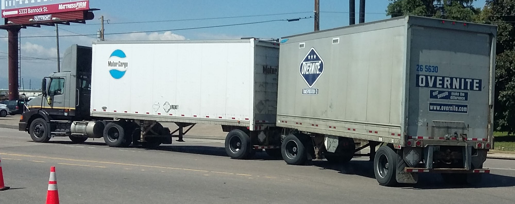 UPS Freight truck, Motor Cargo & Overnite trailers in Adams County, Colorado